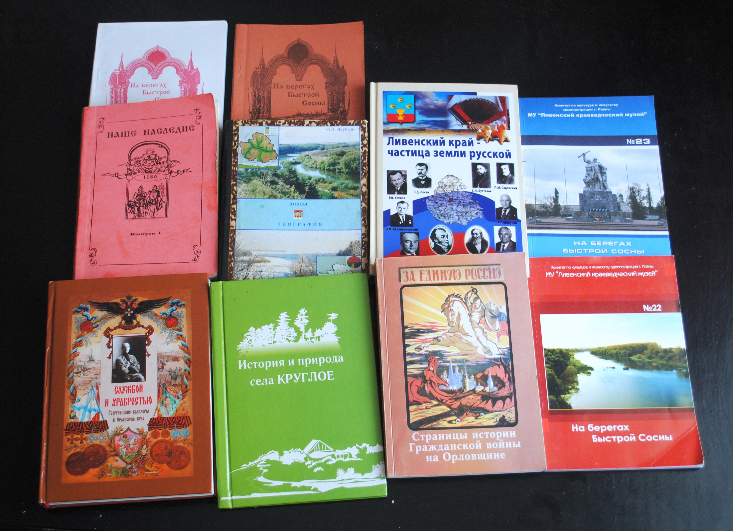 Oleg Iakupson